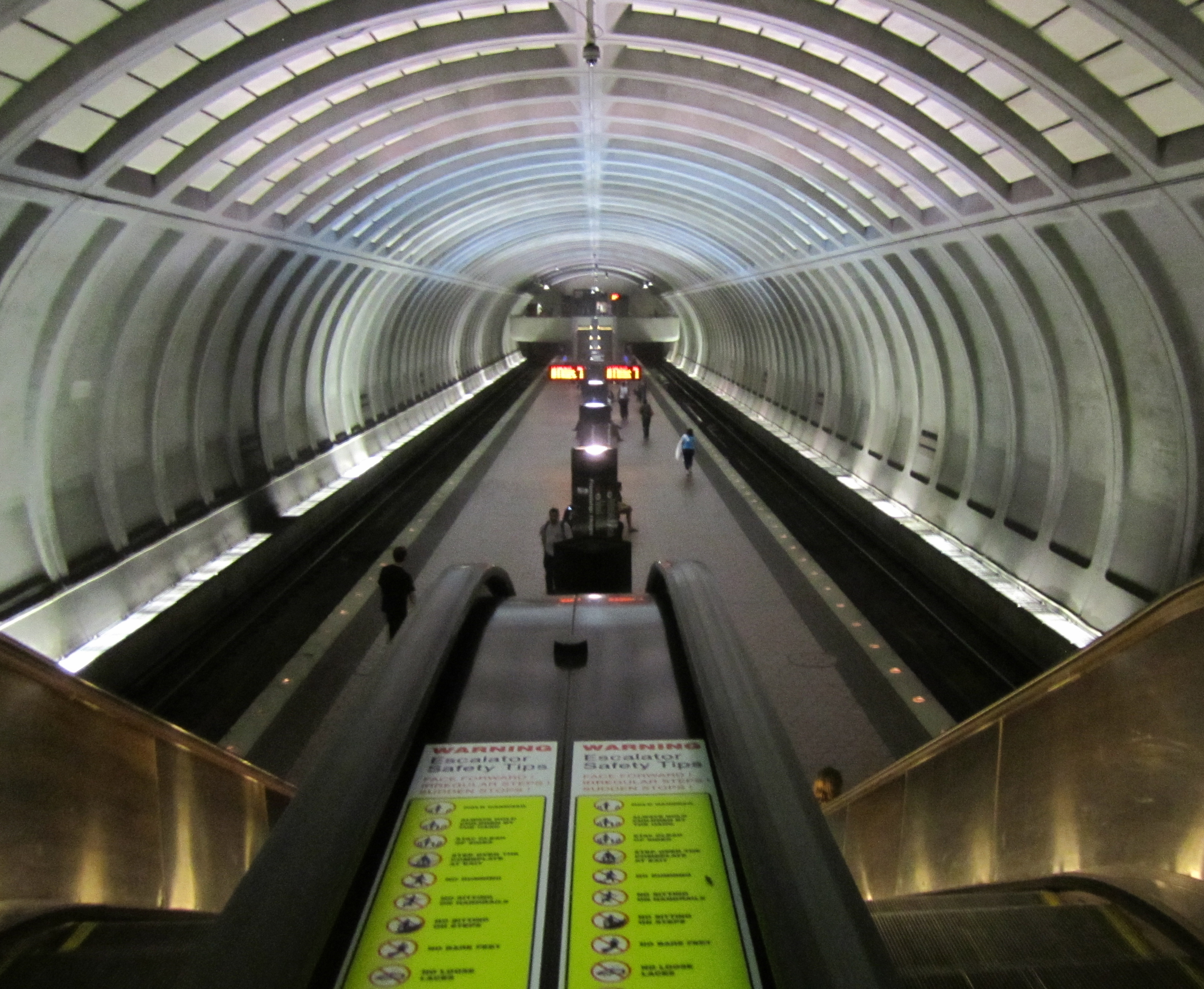 Friendship Heights Metro Station, July 14, 2011. View from the top of the Western Avenue/Bus Depot escalators.